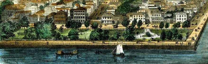 This portion of the Bird's Eye View of Charleston, South Carolina was drawn in 1851 and shows White Point Garden, including some houses which were later removed or heavily reworked.